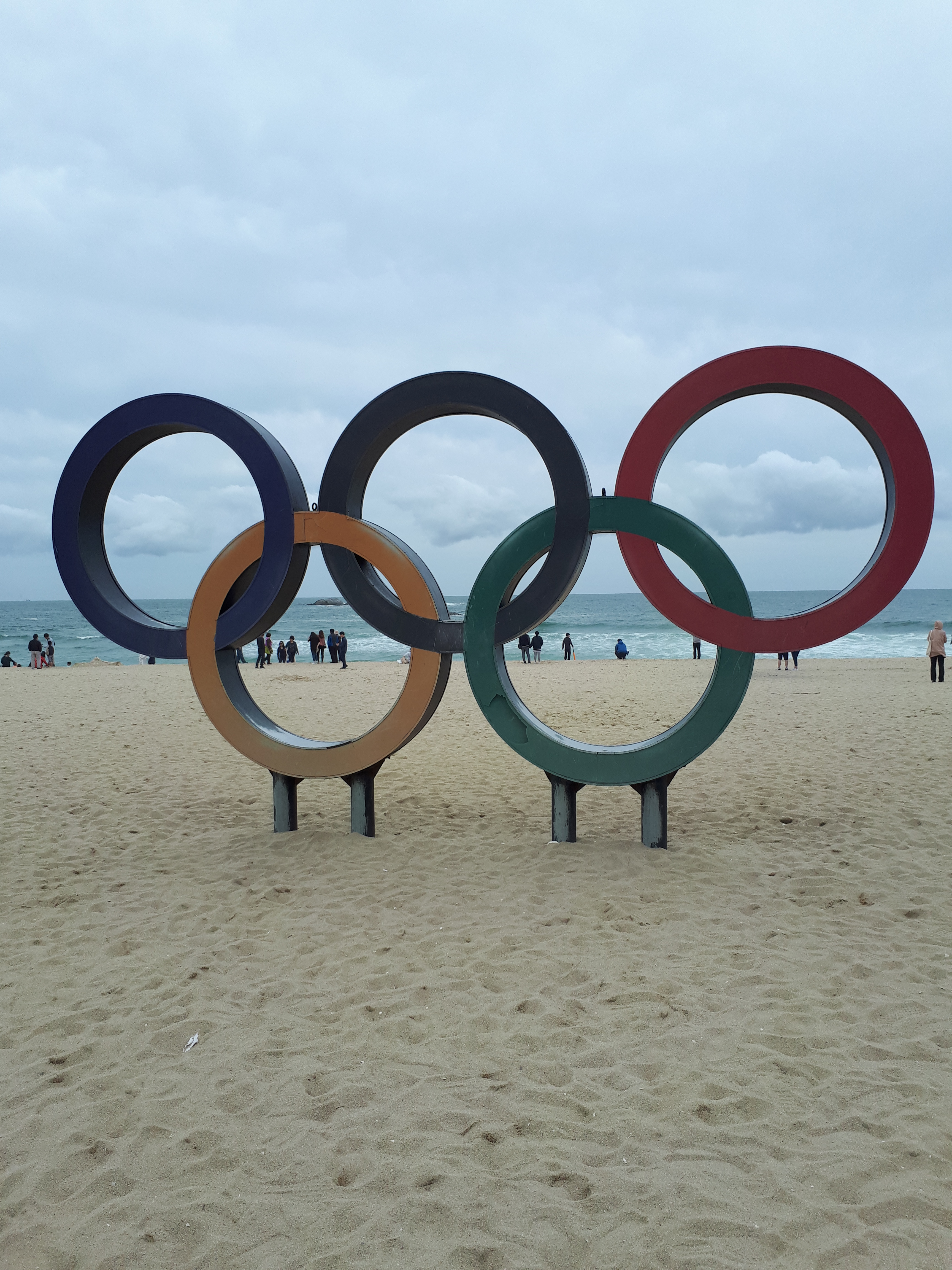 Olympic Games Gyeongpo Beach 2018